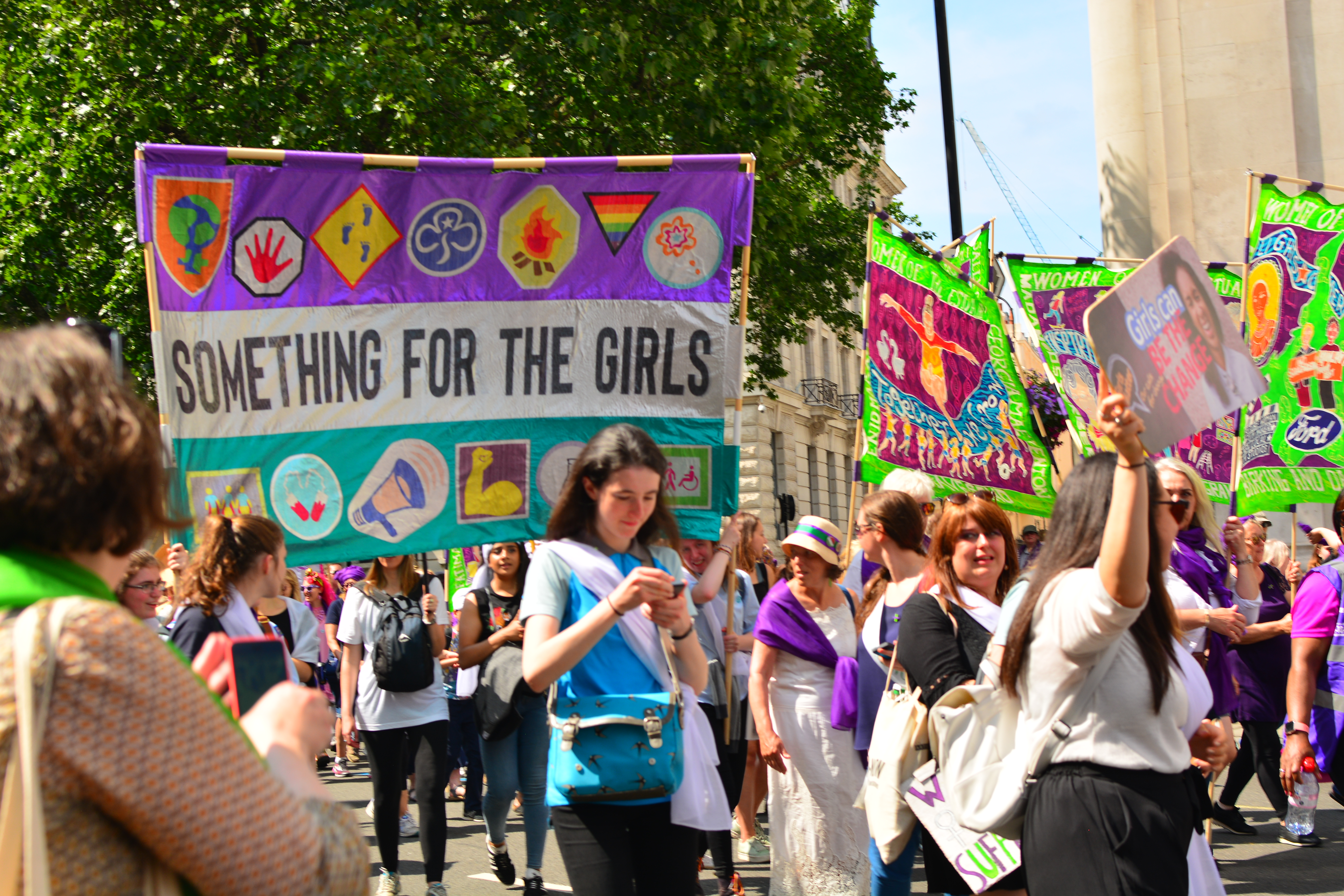 Photograph from Processions (London), giant artwork coordinated by Artichoke as one of the 14-18-Now WWI Centenary Art Commissions.